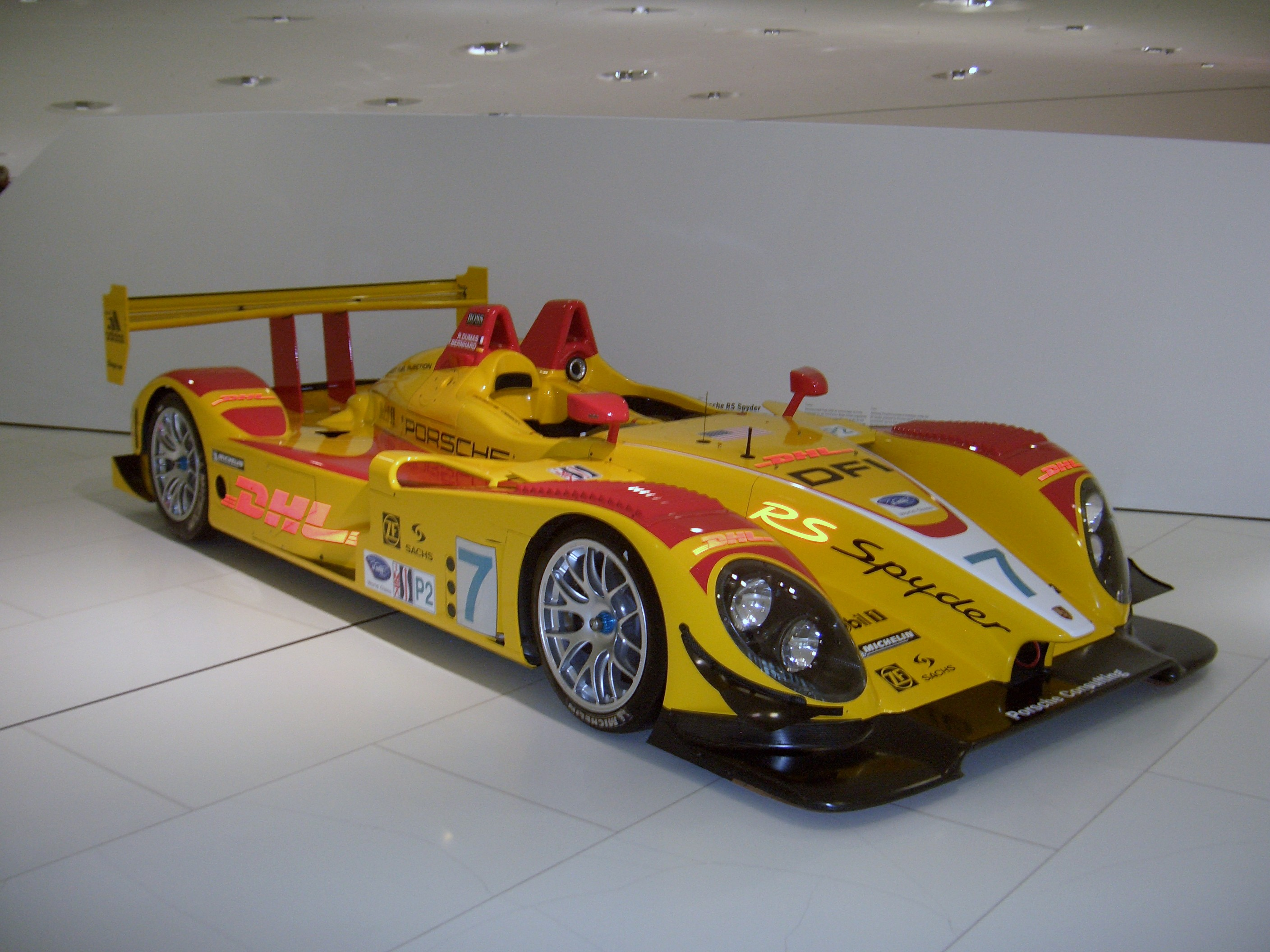 see filename for despcription - seen at PORSCHE MUSEUM in Stuttgart, Germany